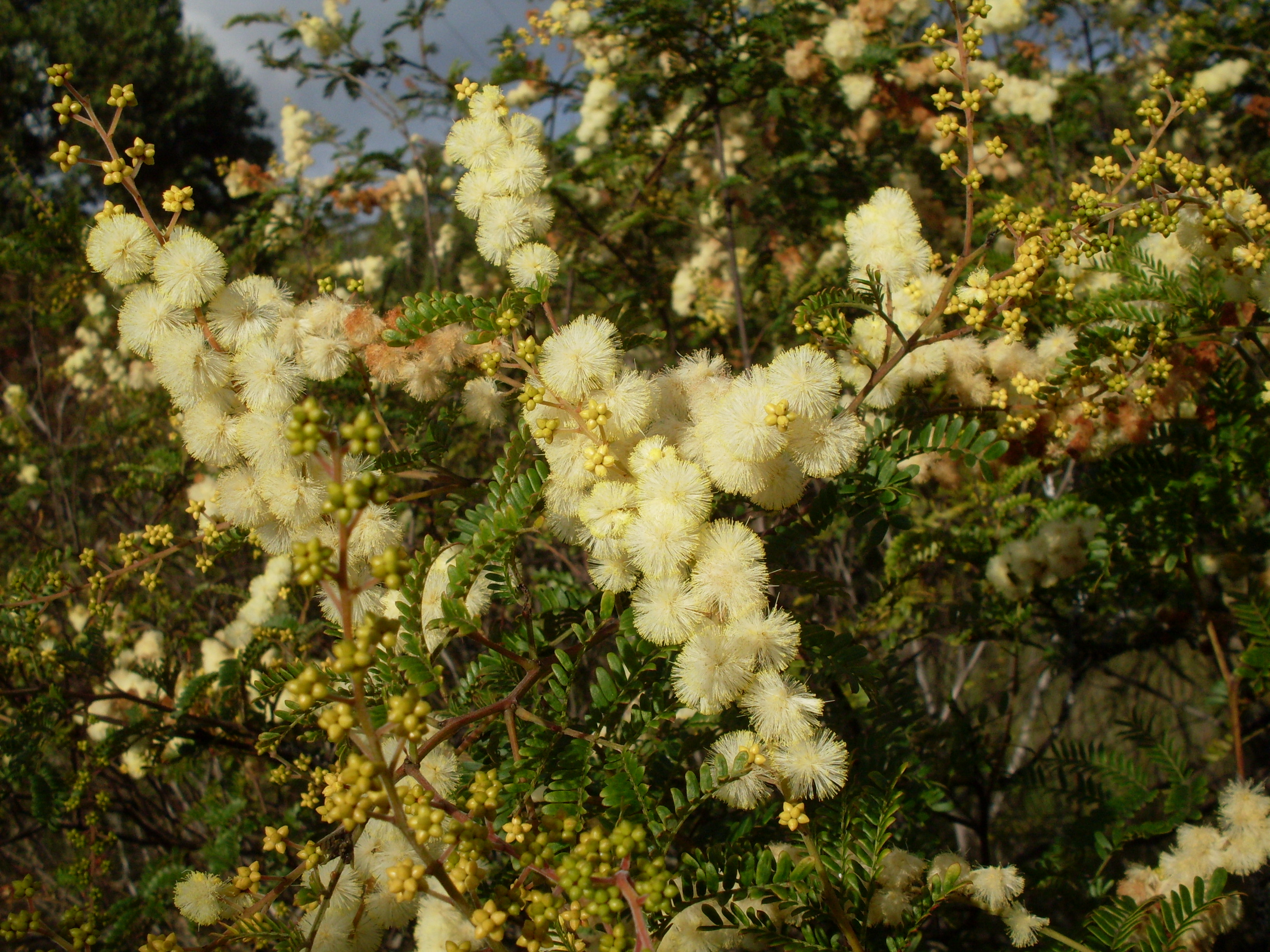 Sunshine wattle (Acacia terminalis). Burnum Burnum Reserve, Jannali NSW Australia, May 2009.